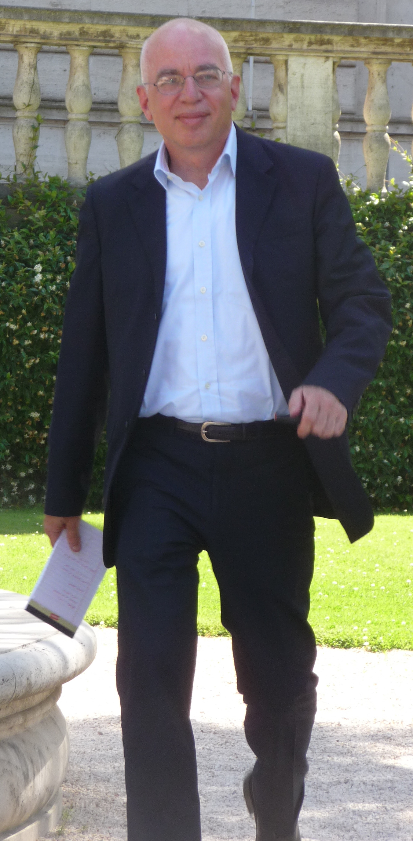 Michael Wolff on assignment in Rome, Italy.